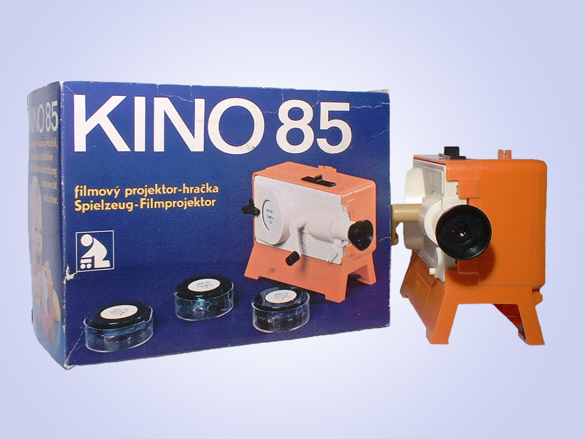 Dux Kino 85